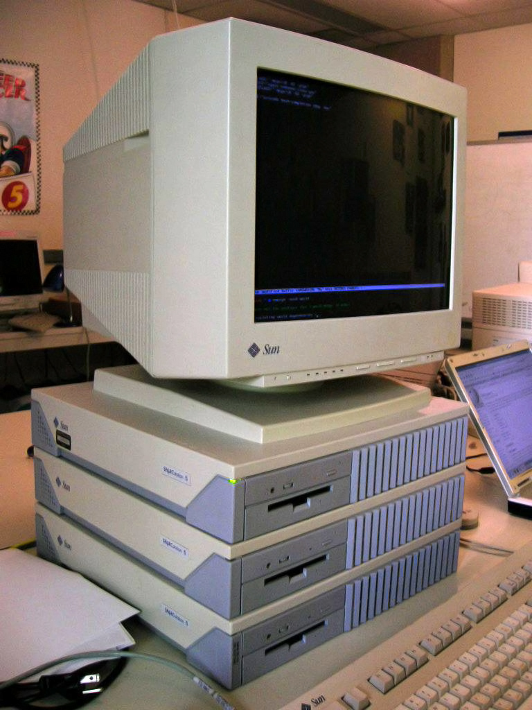 SPARCstation 5 array. Taken by me in the advanced operating systems lab at The Evergreen State College